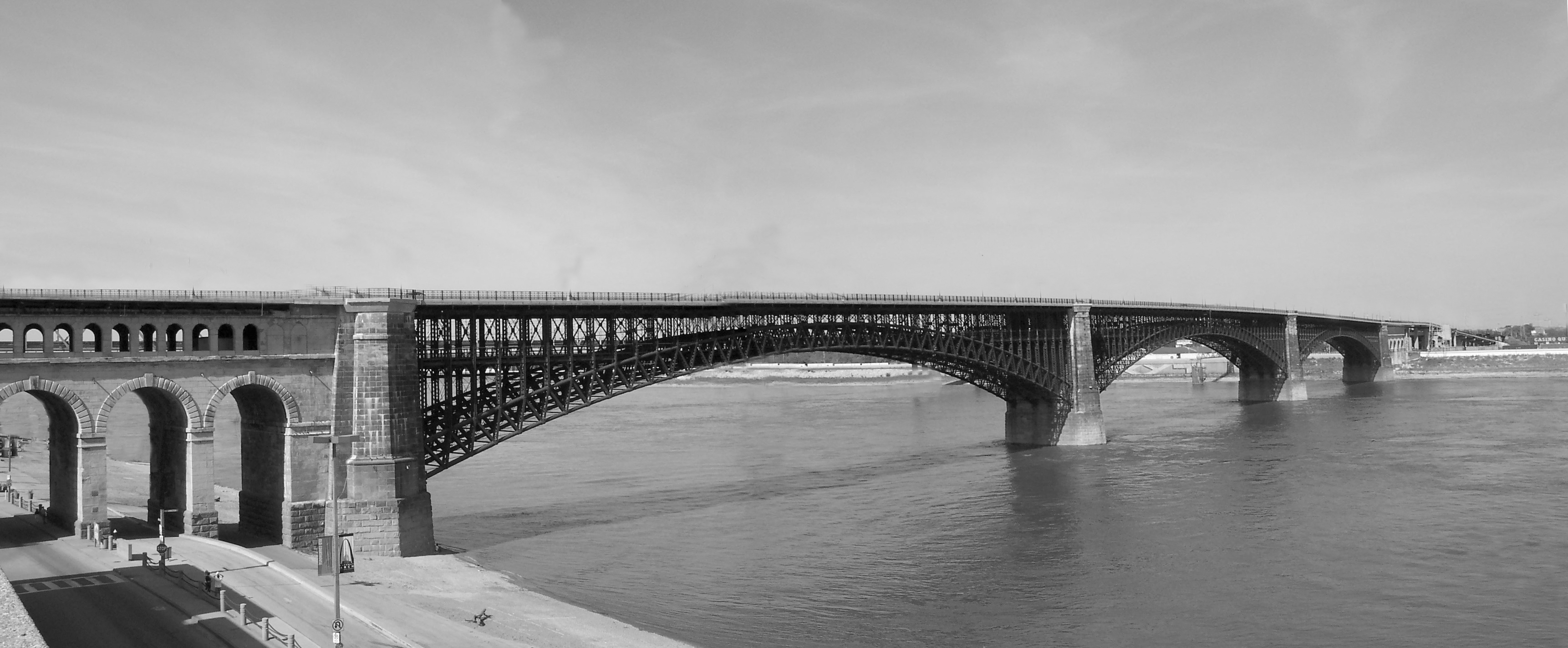 A panoramic image of Eads Bridge in St. Louis, MO. Note: This image has been "photoshopped" in order to restore the bridge to an earlier era. I authored this work of art. Please refer to the GNU Free Documentation License.